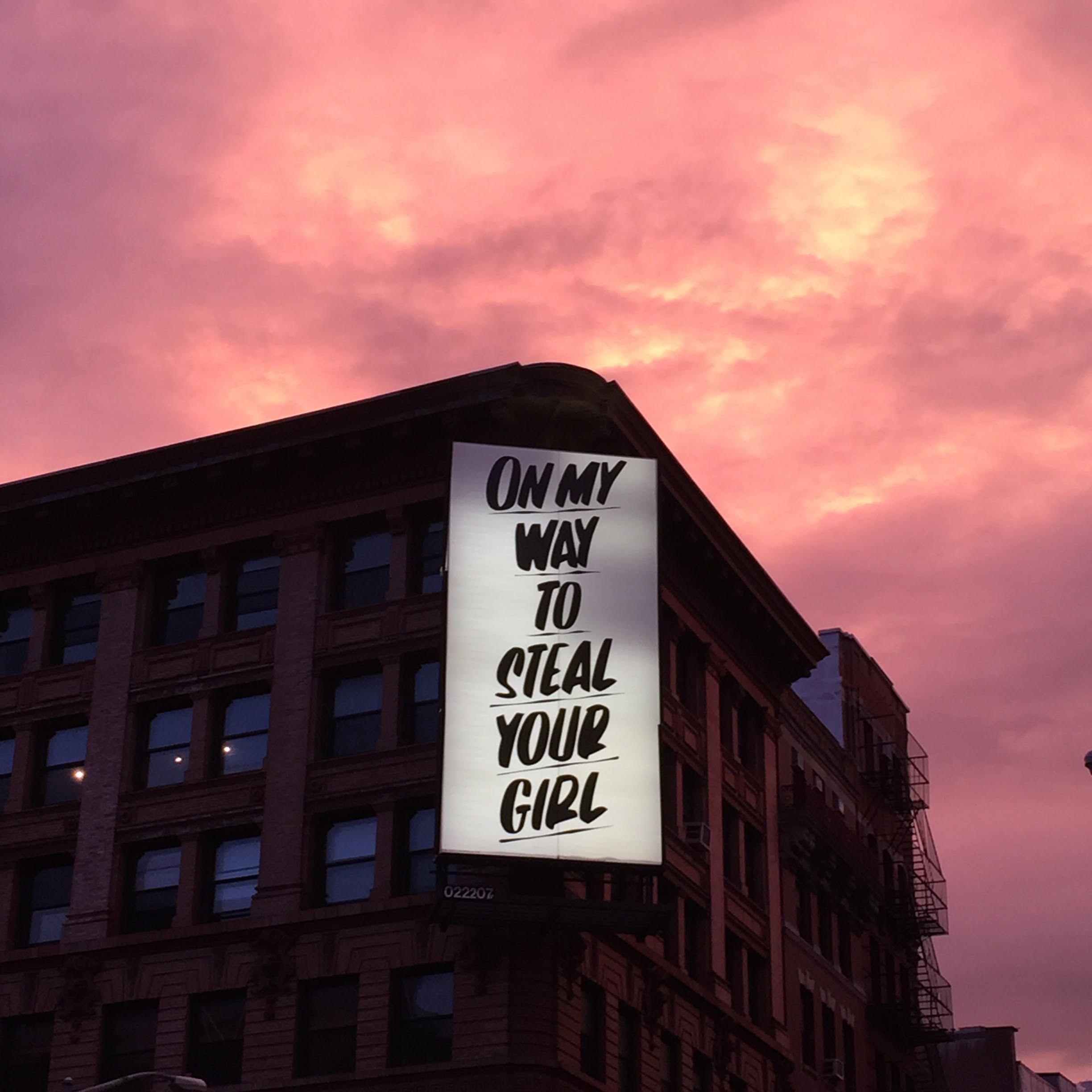 Example of one of Baron Von Fancy's billboards in lower Manhattan